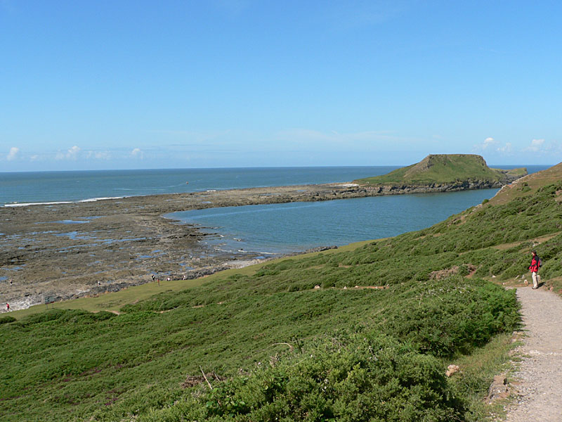 Worms' Head, Gower, Wales, UK